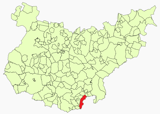 Fuente del Arco